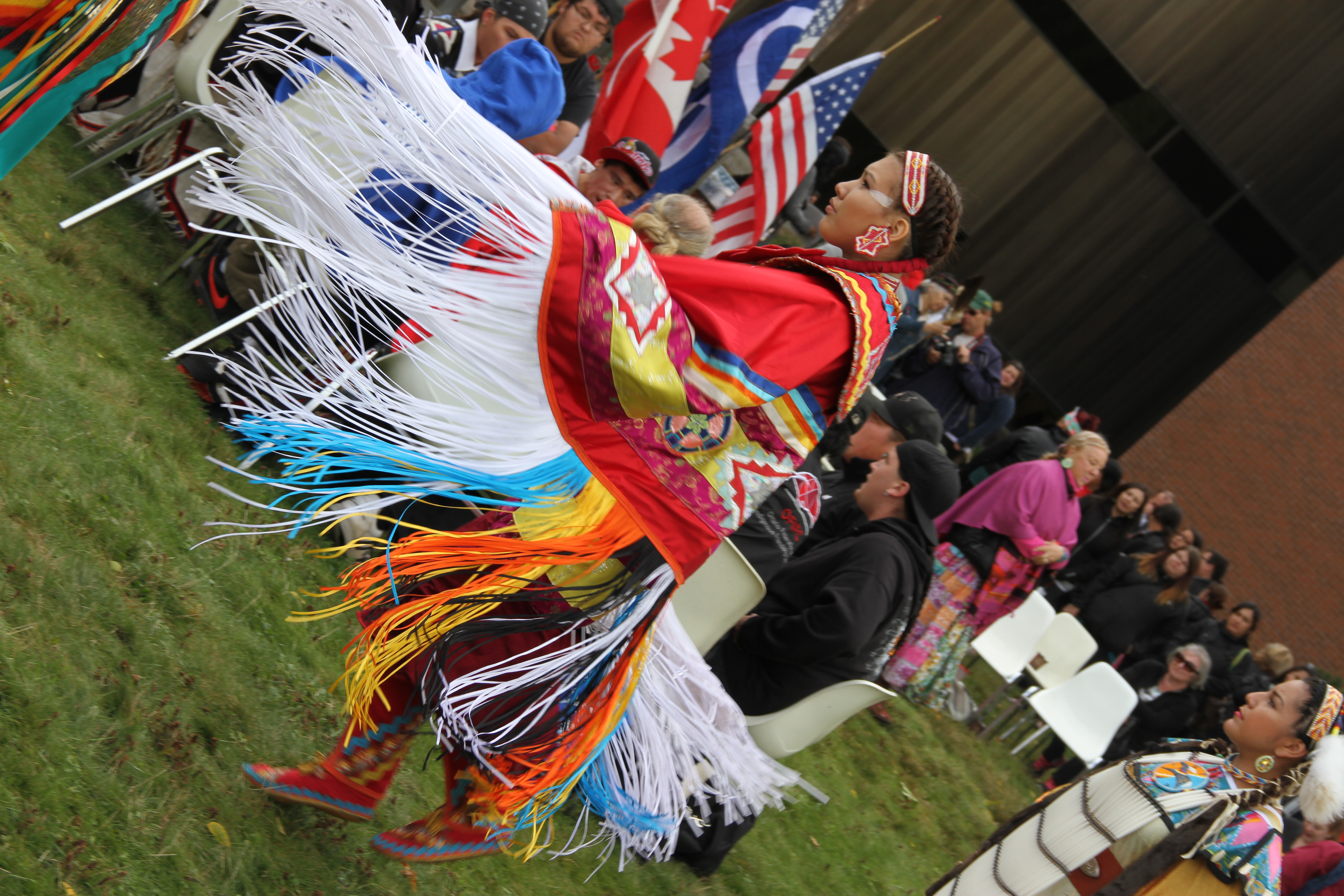 A picture of a Nipissing University student at the annual Welcome Powwow